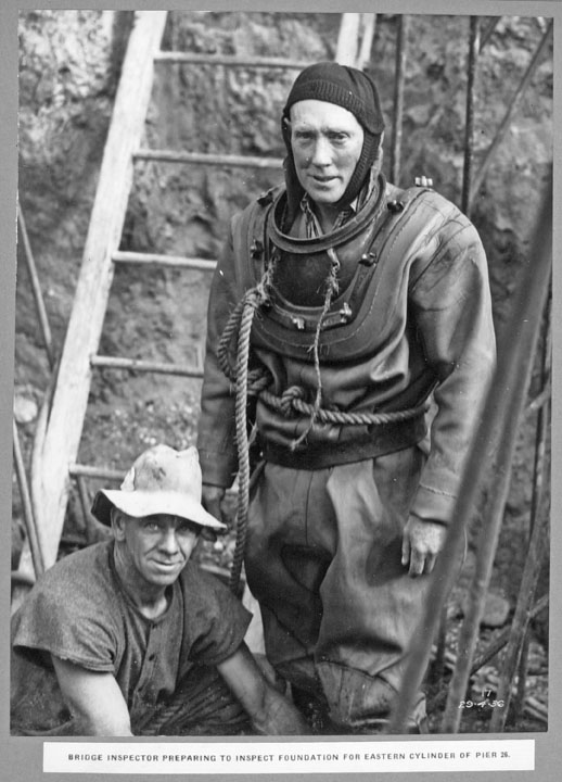 Bridge Inspector preparing to inspect foundation for eastern cylinder of pier 26, Brisbane. (Story Bridge construction)